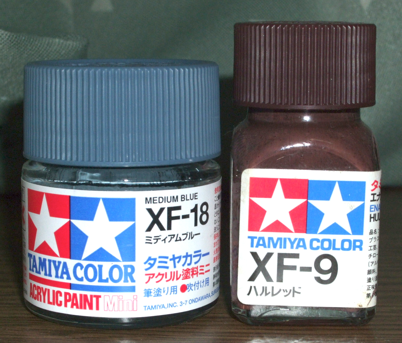 Tamiya color Acrylic paint & Enamel paint